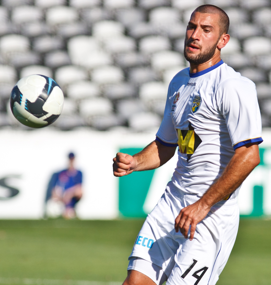 Andrew Barisic playing for the Gold Coast United youth team.